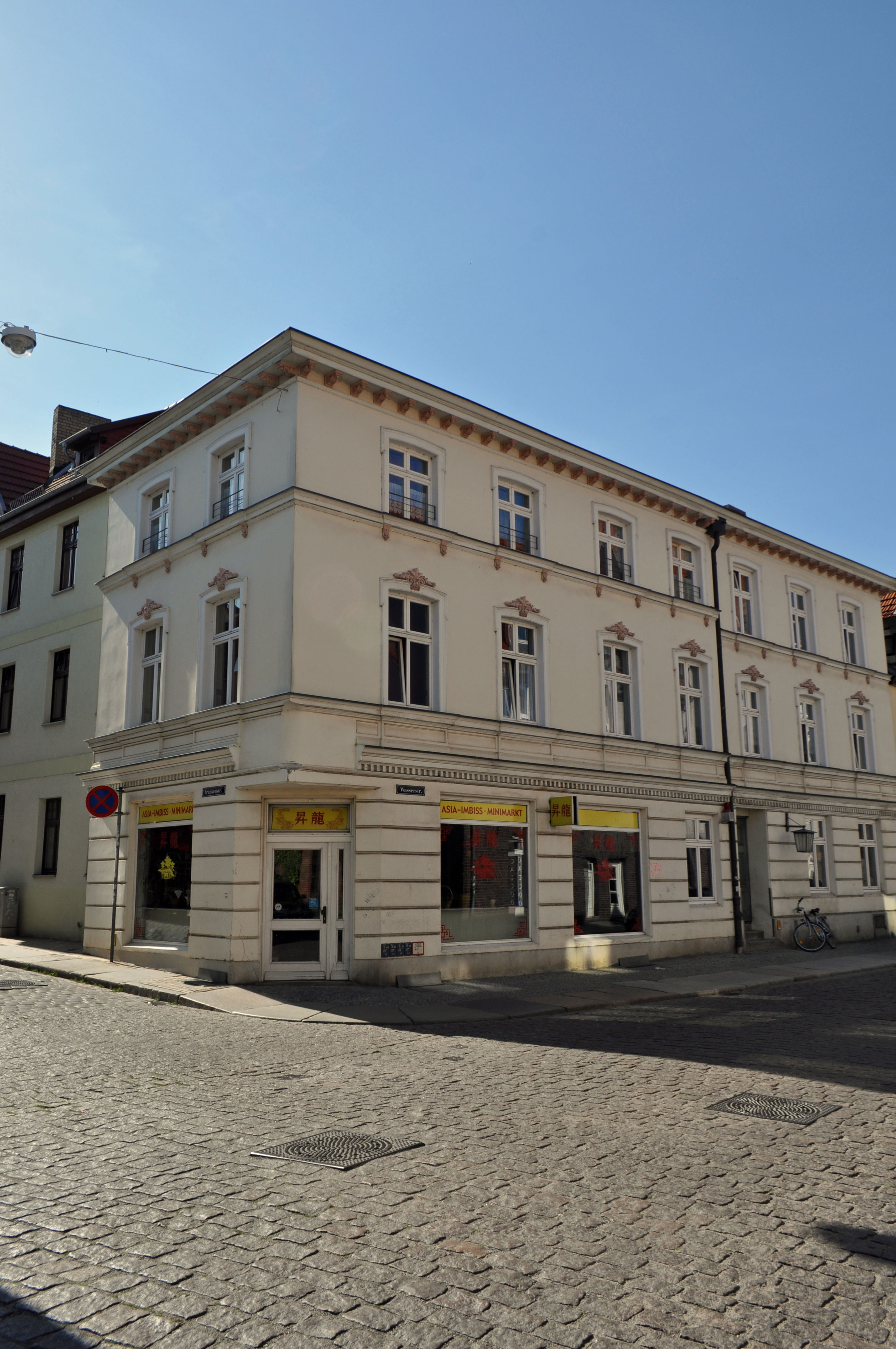 Stralsund, Wasserstraße 35 This is a photograph of an architectural monument.